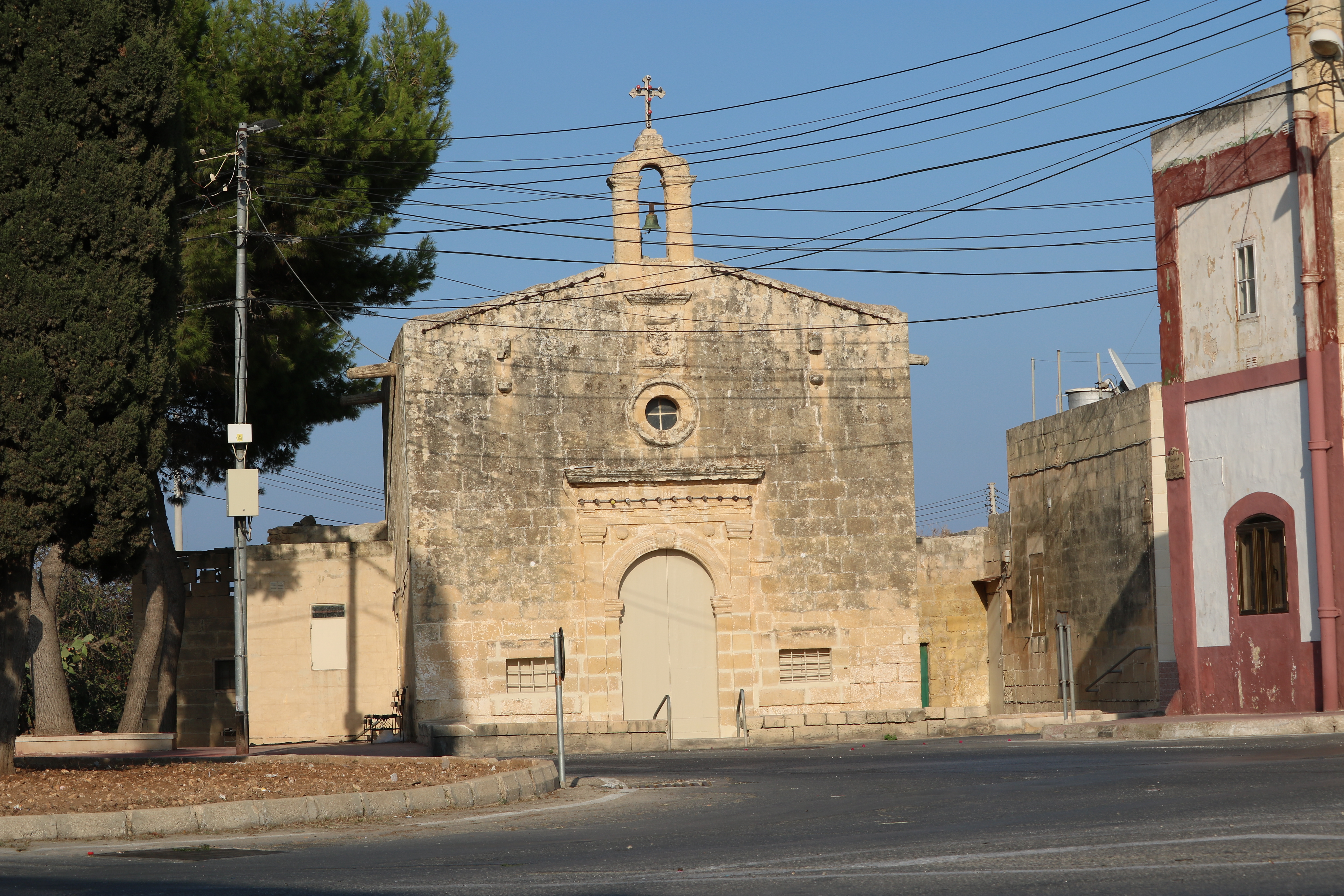 Chapel of St. Clement This media is about Maltese cultural property with inventory number 01971.